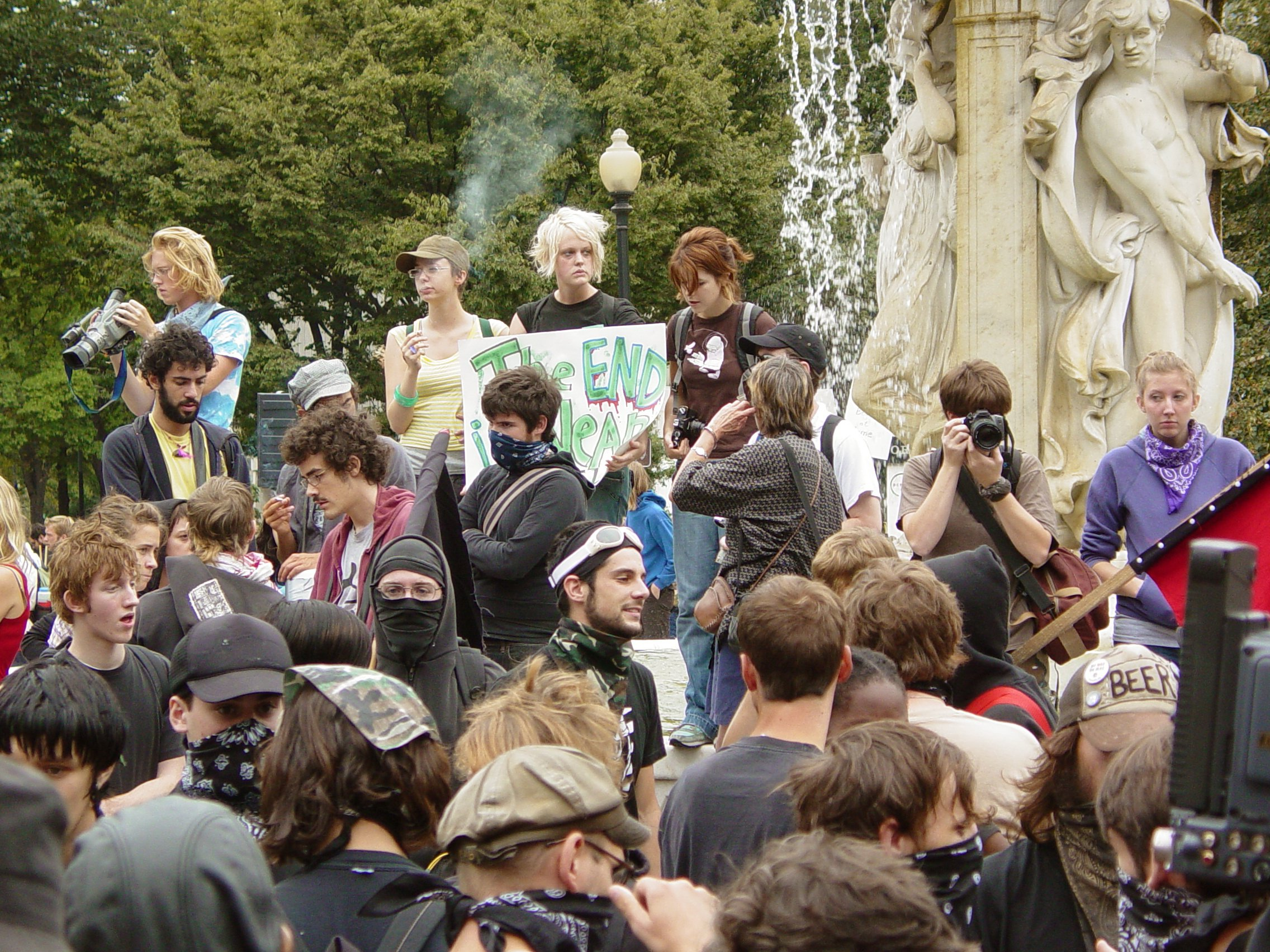 A sizable crowd is gathered at Dupont Circle for the feeder march. From the September 24, 2005 anti-war protest in Washington DC. Source: The Schumin Web, September 24 Protests